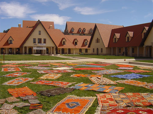 Al Akhawayn University in Ifrane Campus